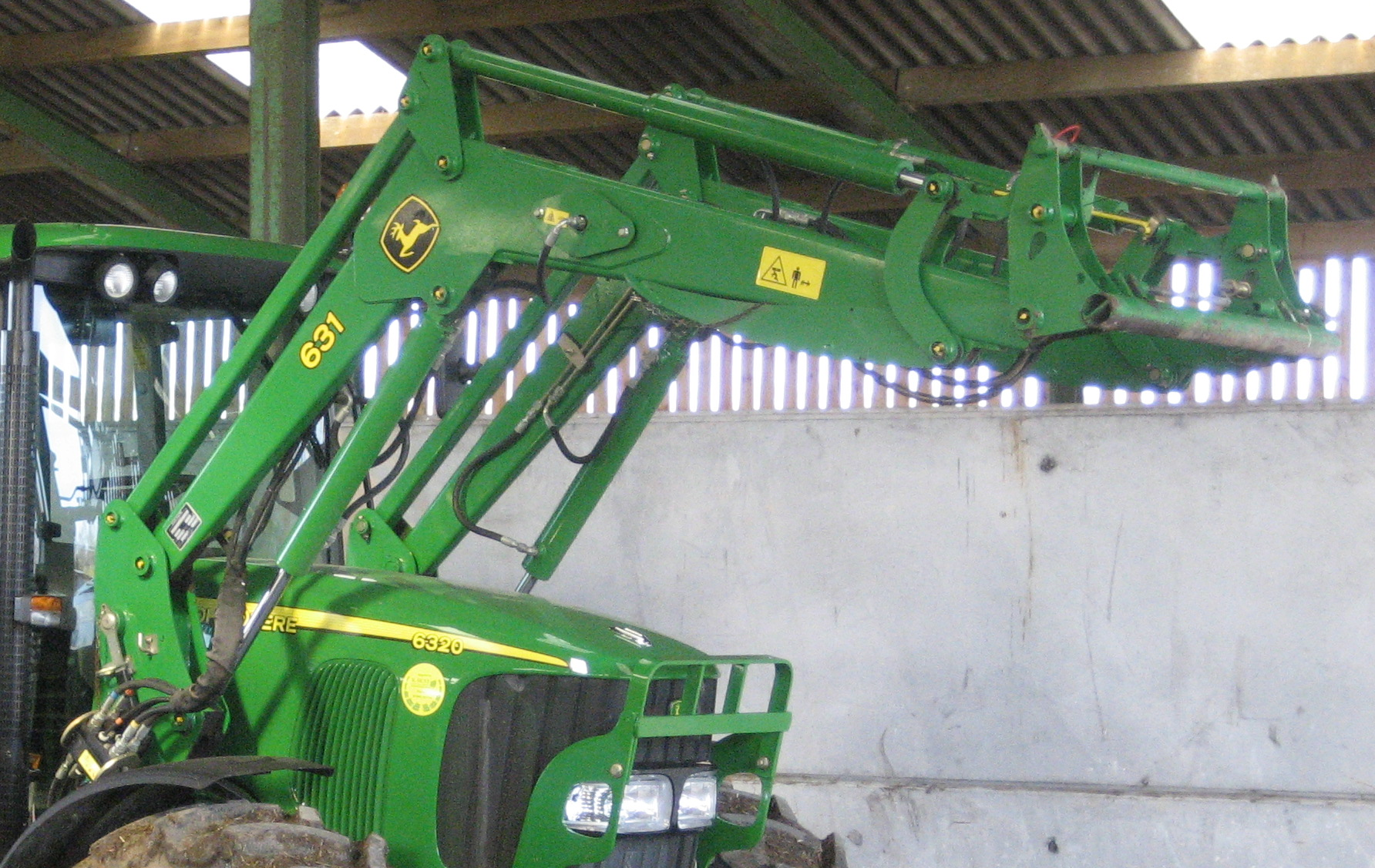 John Deere 631 front loader